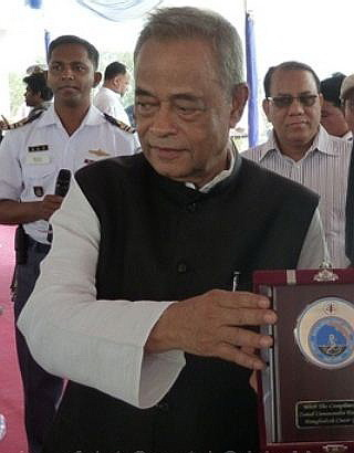 Alamgir was cropped from the image of Ambassador Dan Mozena presents a Friendship Coin to Bangladesh Home Minister Dr. Mohiuddin Khan Alamgir. Uploaded to commons by Rahat Rahim